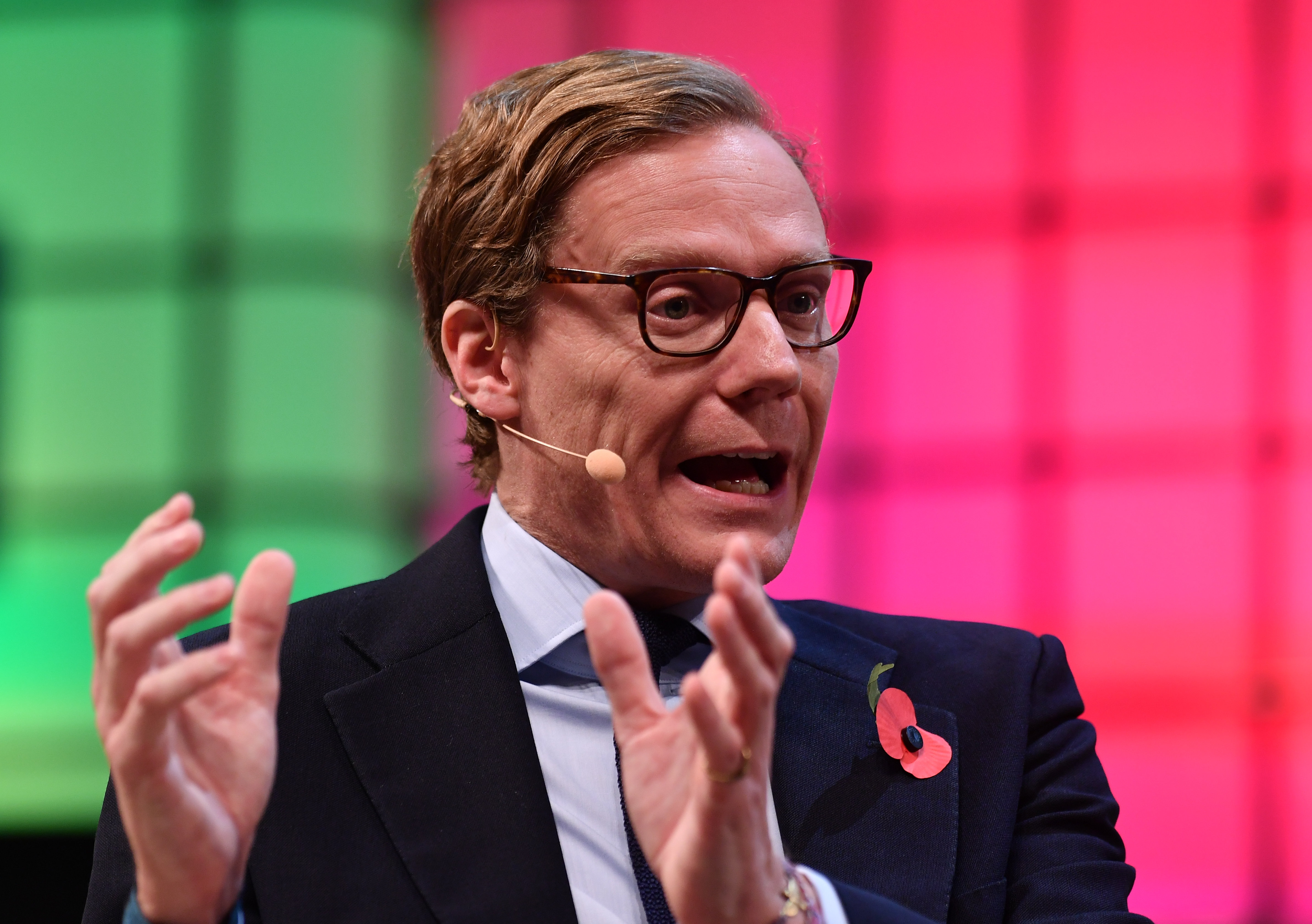 9 November 2017; Alexander Nix, CEO, Cambridge Analytica, on Centre Stage during day three of Web Summit 2017 at Altice Arena in Lisbon. Photo by Sam Barnes/Web Summit via Sportsfile